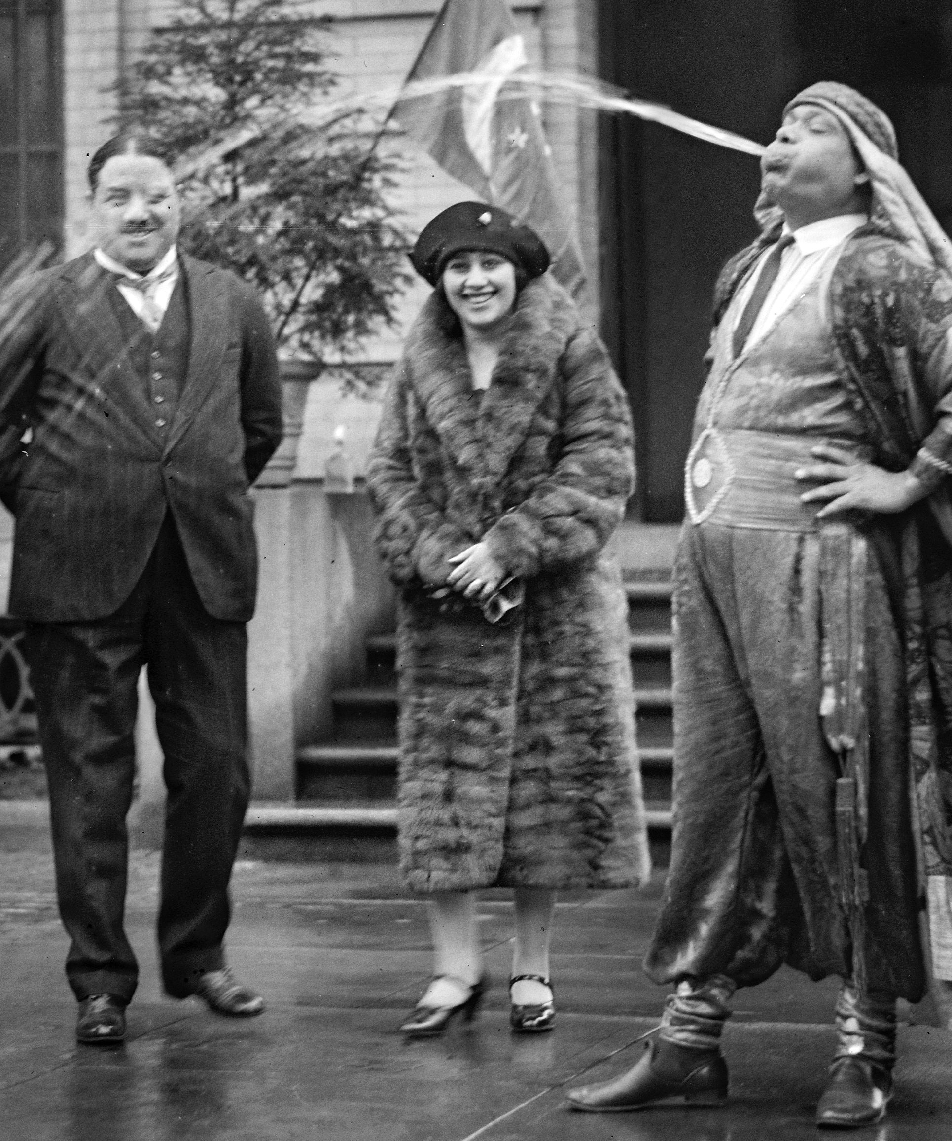 Vaudeville performer Hadji Ali demonstrating his skills of controlled regurgitation at Egyptian Legation, on March 27, 1926.